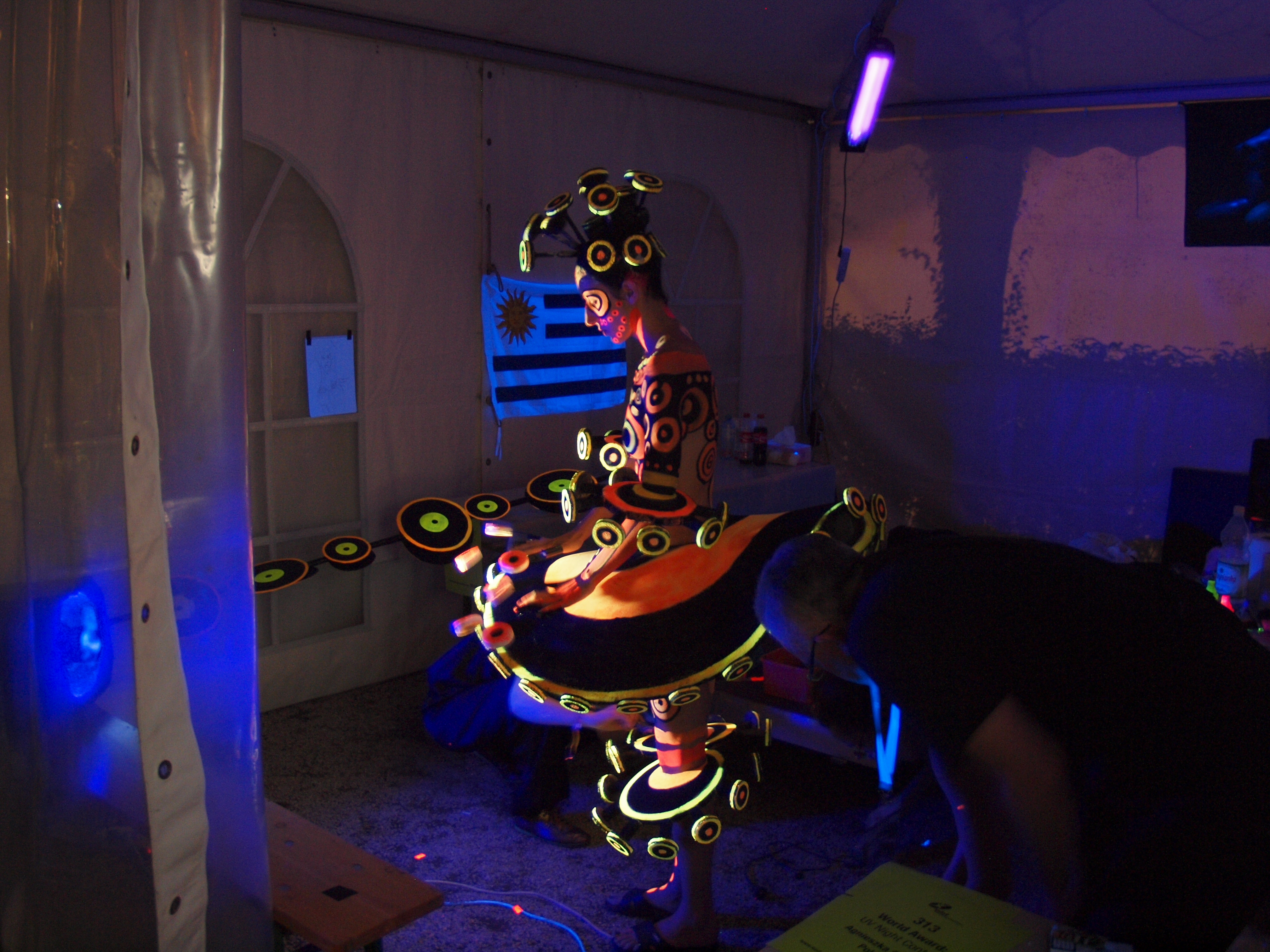 A female body painting model being painted at the ultraviolet body painting world championships at the World Bodypainting Festival 2014 in Pörtschach am Wörthersee, Carinthia, Austria, in the middle of the night. I couldn't stay awake long enough to see the final presentation and awards event, only the actual painting.